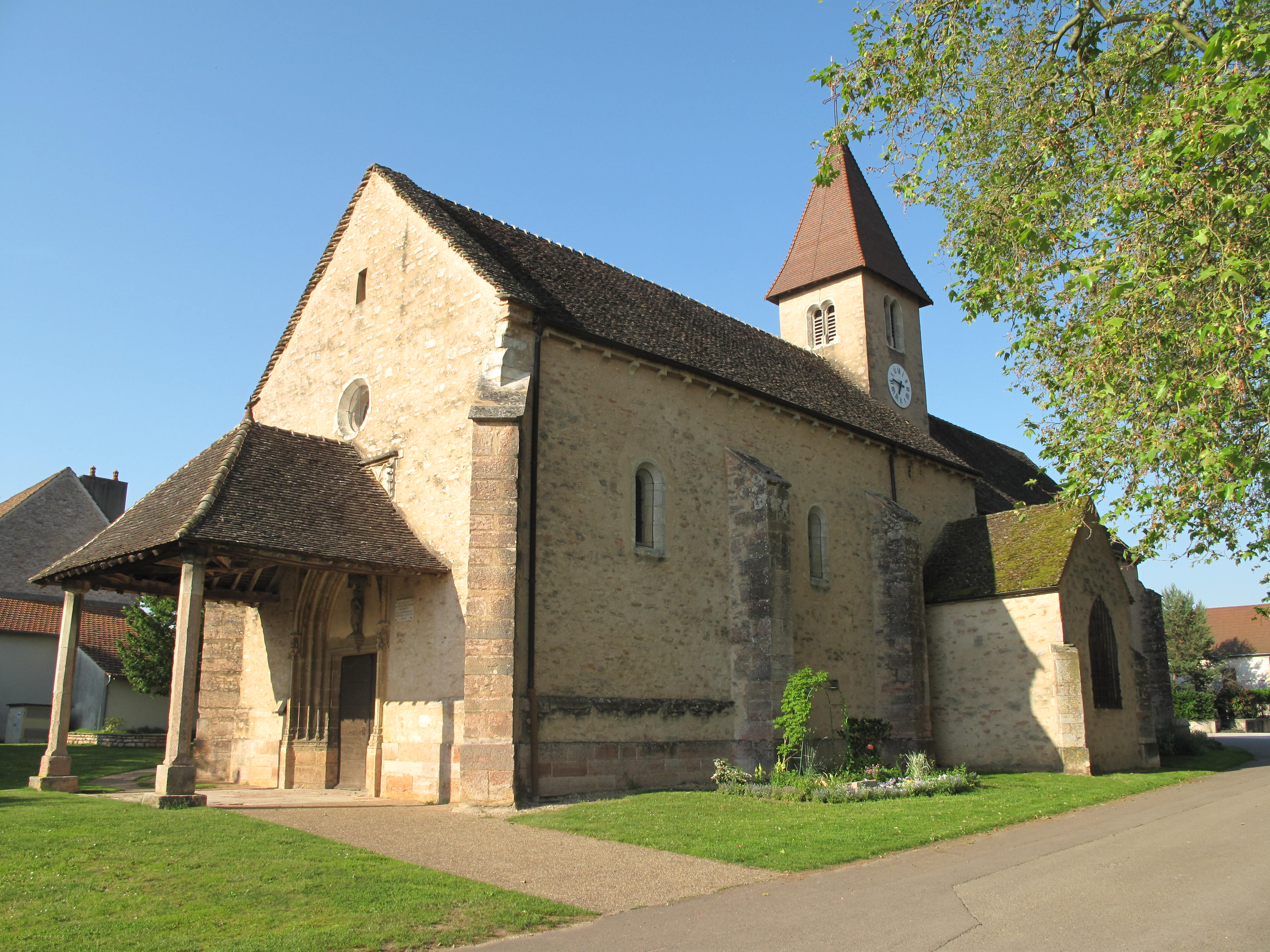 Church Notre-Dame in Préty (Saône-et-Loire, France).